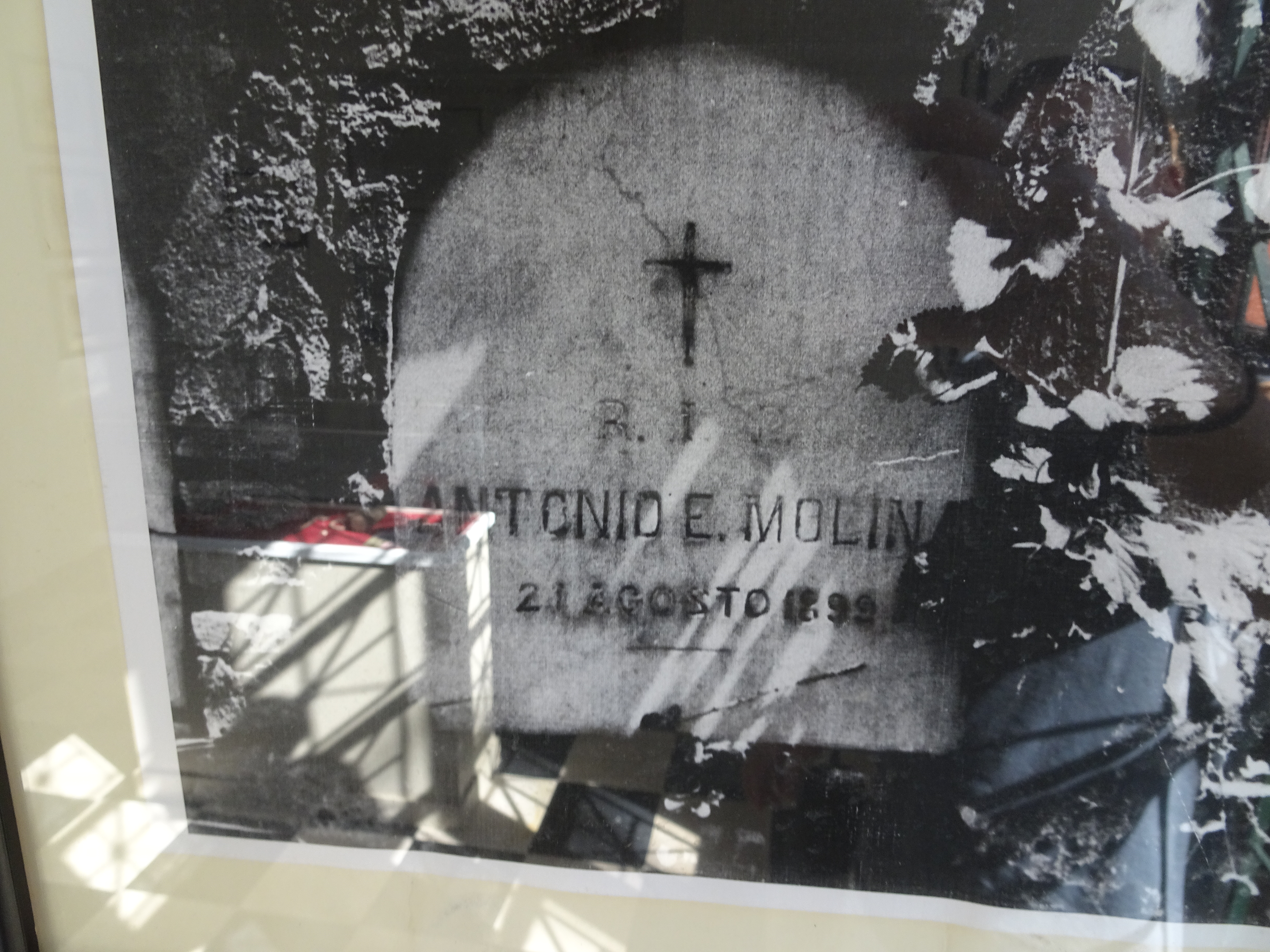 Tumba del Alcalde Antonio E. Molina, Cementerio Civil de Ponce, Barrio Portugues Urbano, Ponce, PR - (DSC01296)